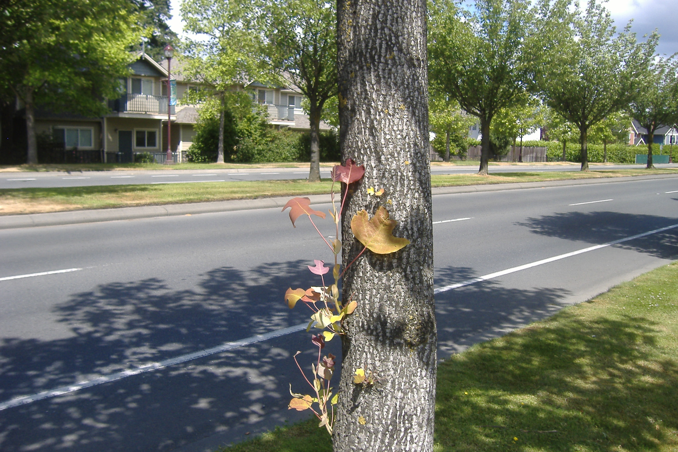 The trunk of a Chinese tuliptree (Liriodendron chinense), sprouting epicormic shoots with purplish color often seen in juvenile foliage.